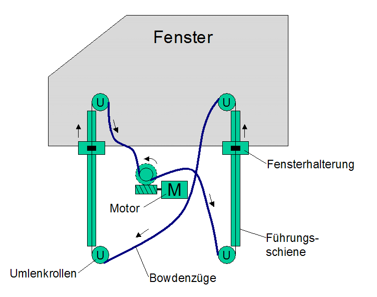 principle of electric window lift